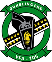 Insignia of the U.S. Navy Strike Fighter Squadron 105 (VFA-105).